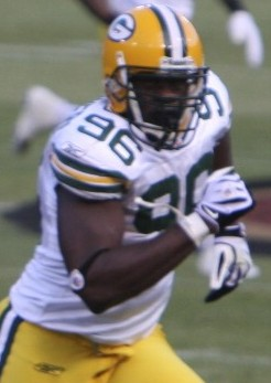 Green Bay Packers defensive end Mike Montgomery in action in a preseason game against the San Francisco 49ers on August 16, 2008.